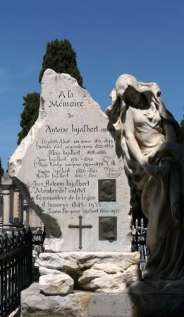 The tomb of Jean Antoine Injalbert